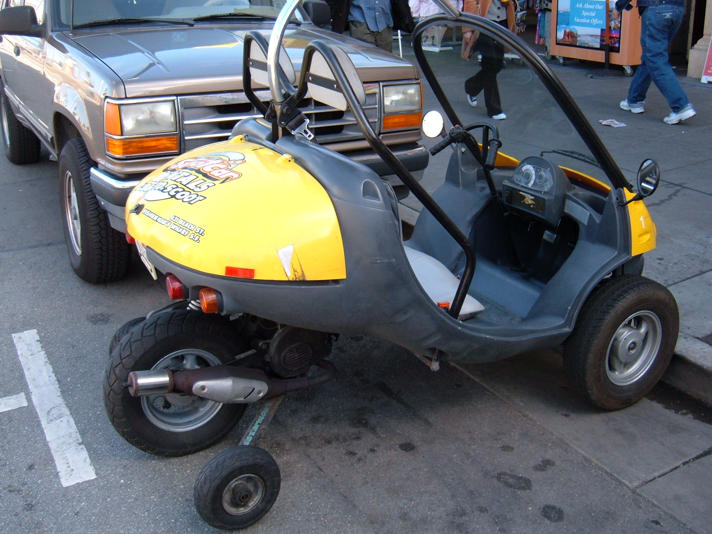 Scootcar Funtech 50 for rental in Fisherman's Wharf, San Francisco.